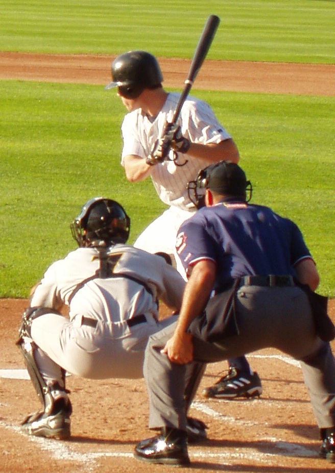 Sam Smith of the South Bend Silver Hawks delivers a pitch to Bronson Sardinha of the Battle Creek Yankees during a 2003 game in Battle Creek, Michigan